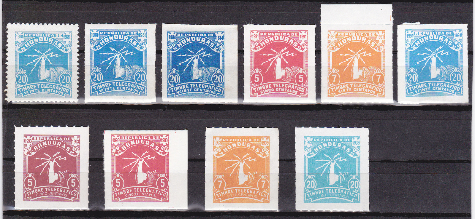 Various telegraph stamps of Honduras based on an out of copyright 1934-38 design.